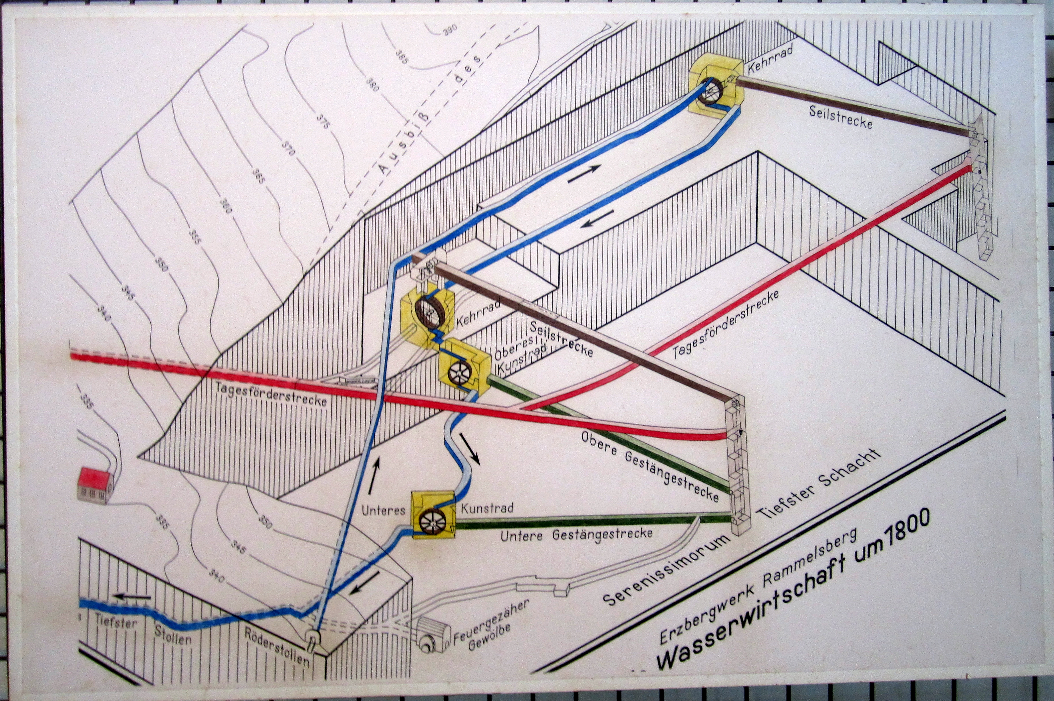 Scheme of mine water drainage installations and hoistung water wheels of Rammelsberg mine. This systems was invented and adapted by Johann Christoph Röder, Oberbergmeister (lit. senior mine master) of Rammelsberg mine from 1797 until 1810.